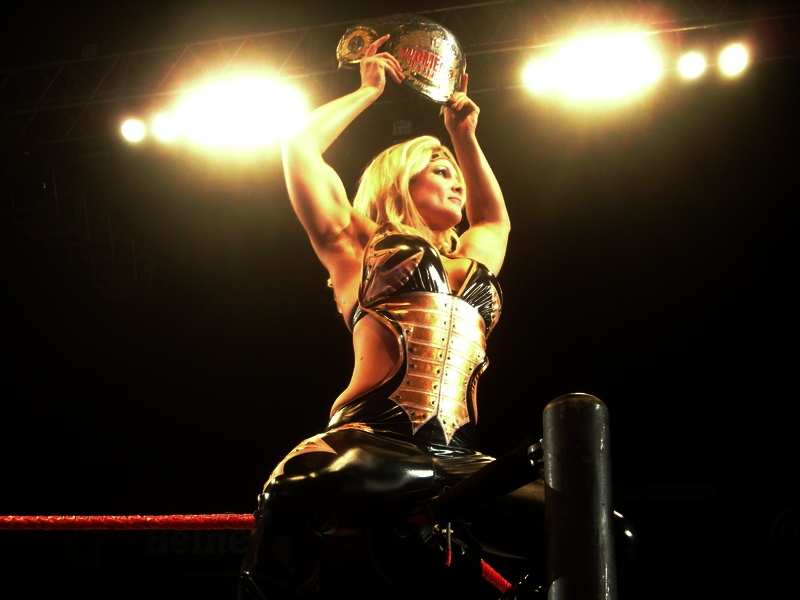 WWE Women's Champion Beth Phoenix in Milan,Italy